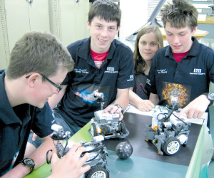 Mitch Van Galen, Cassie Mills, Shaun Jarvie & Tony Watson fiddling with their NXT2.0 Robots before WRO 2012 at Bellarine Secondary College.